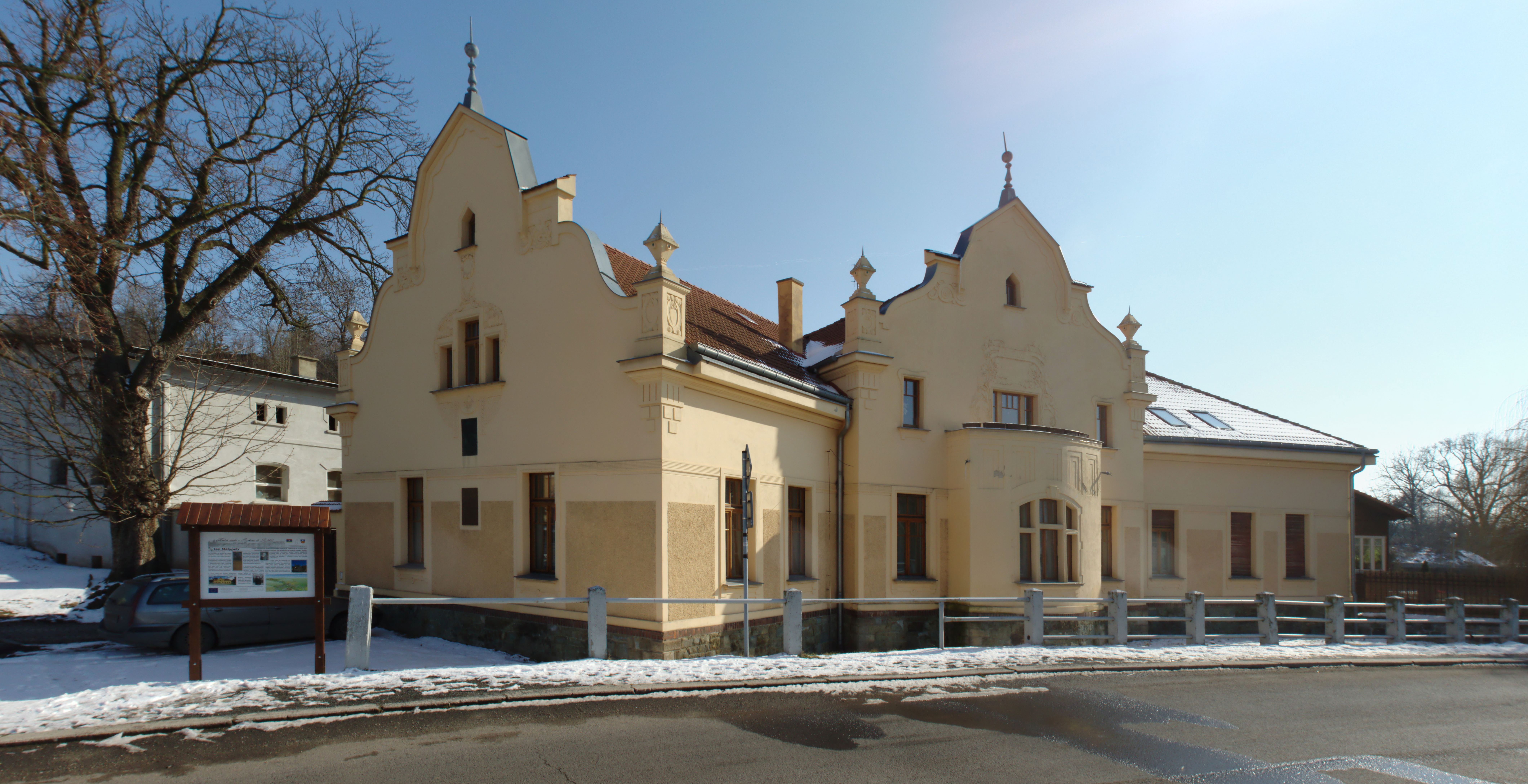 Panoramic view of Jan Malypetr house in Klobouky, Central Bohemian Region, CZ